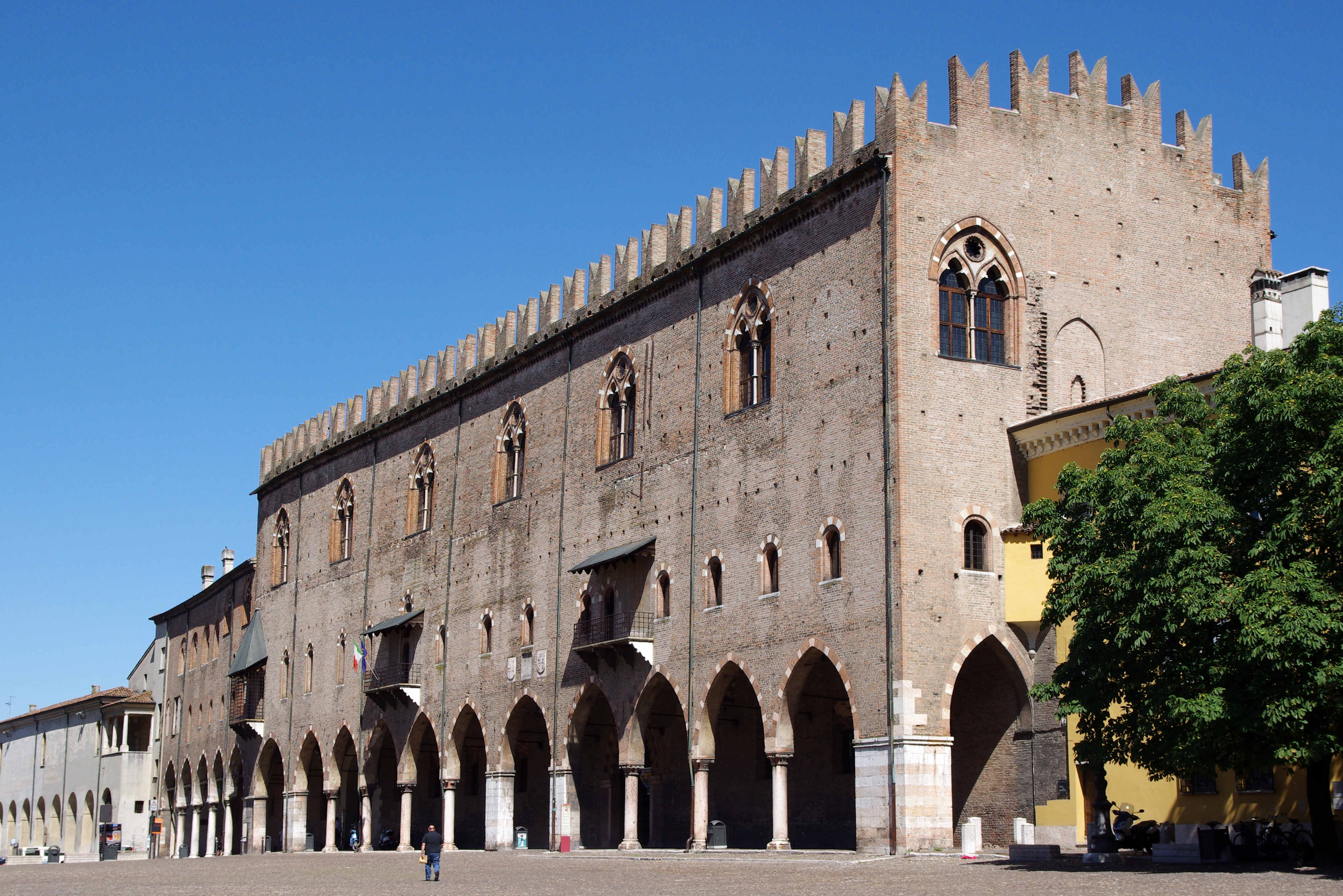 Palazzo del Capitano in Mantua